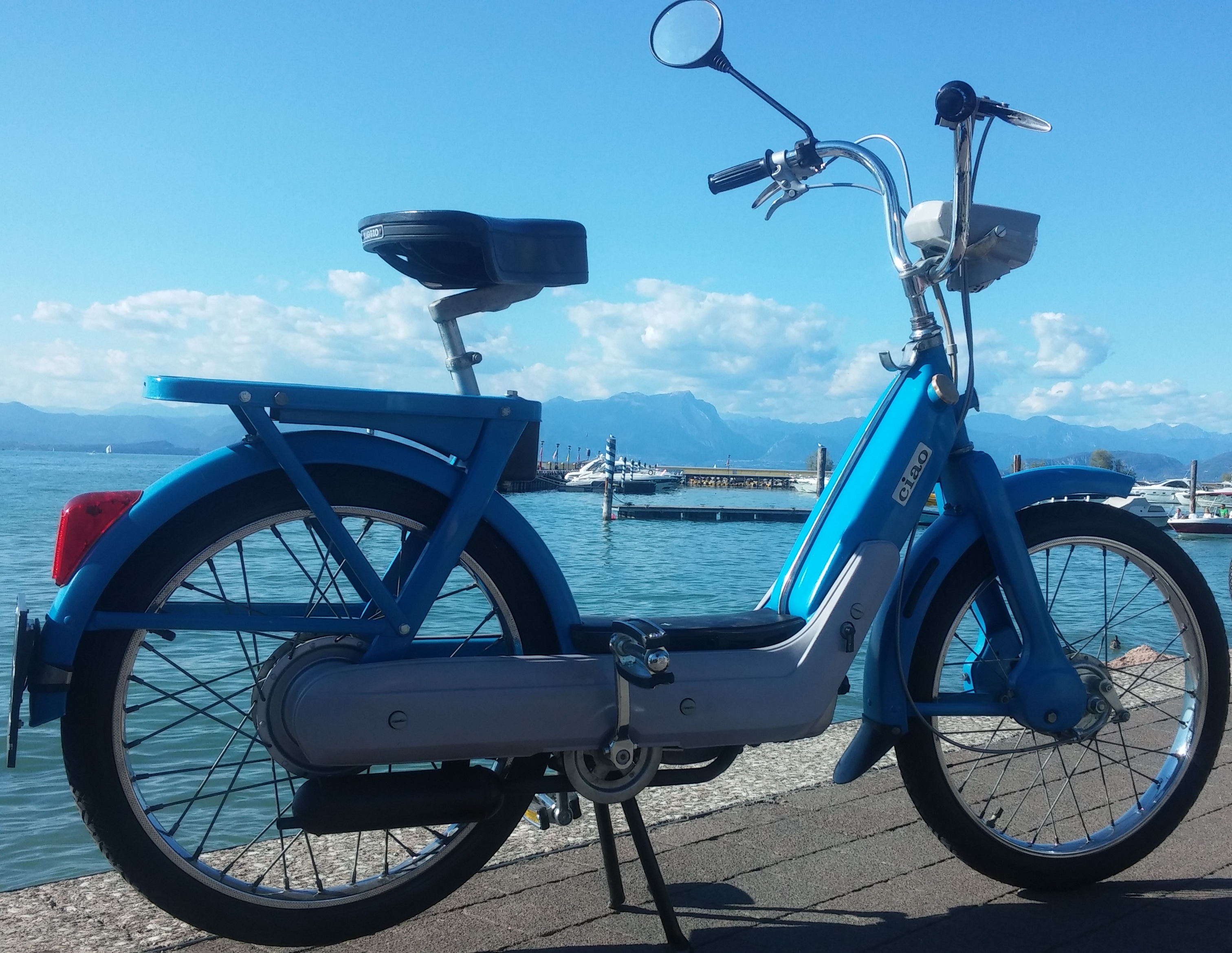 "Ciao" Piaggio model SC Arcobaleno, colour "Blue China" products in 1973